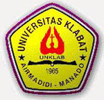 Logo of Klabat University